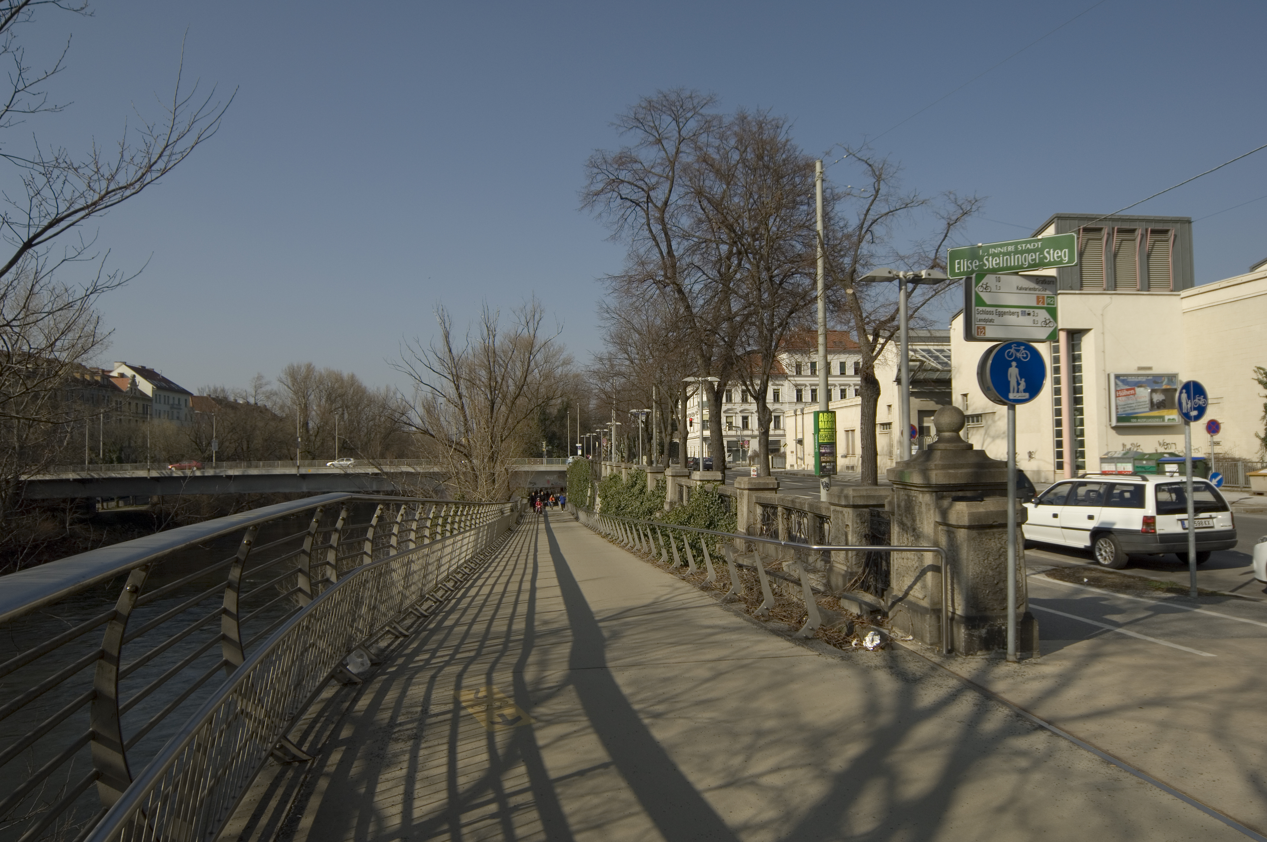 Elise-Steininger-Steg from south